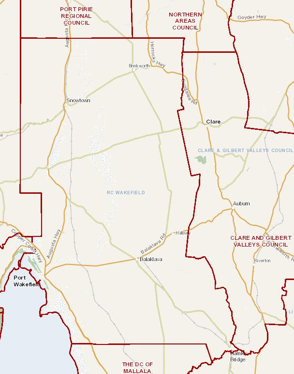 Map image of Wakefield Regional Council (local government body), South Australia, as at November 2015. Map generated by the Government of South Australia website's Property Land Browser tool.